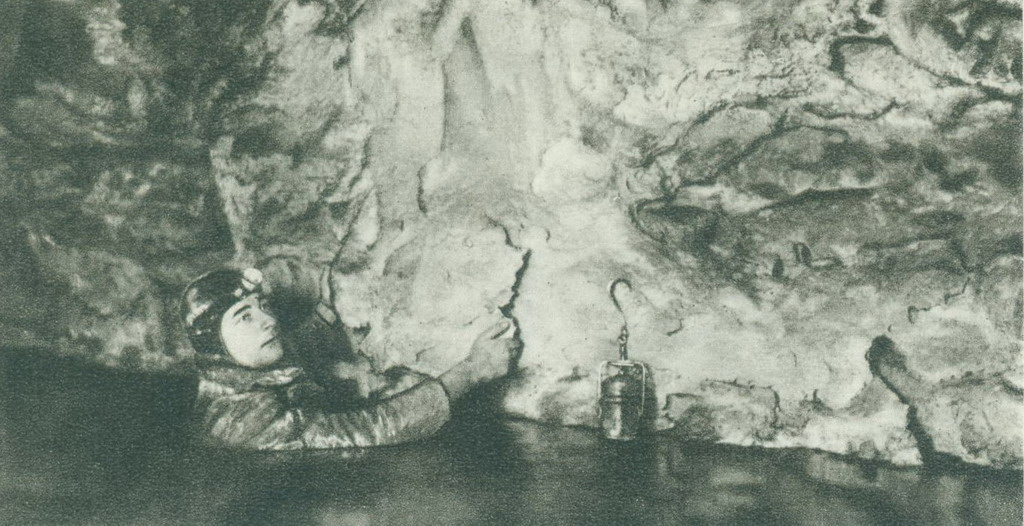 Hubert Kessler during research in Tapolca Lake Cave